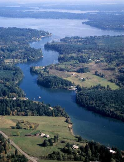 Little Skookum Inlet with Brown Cove